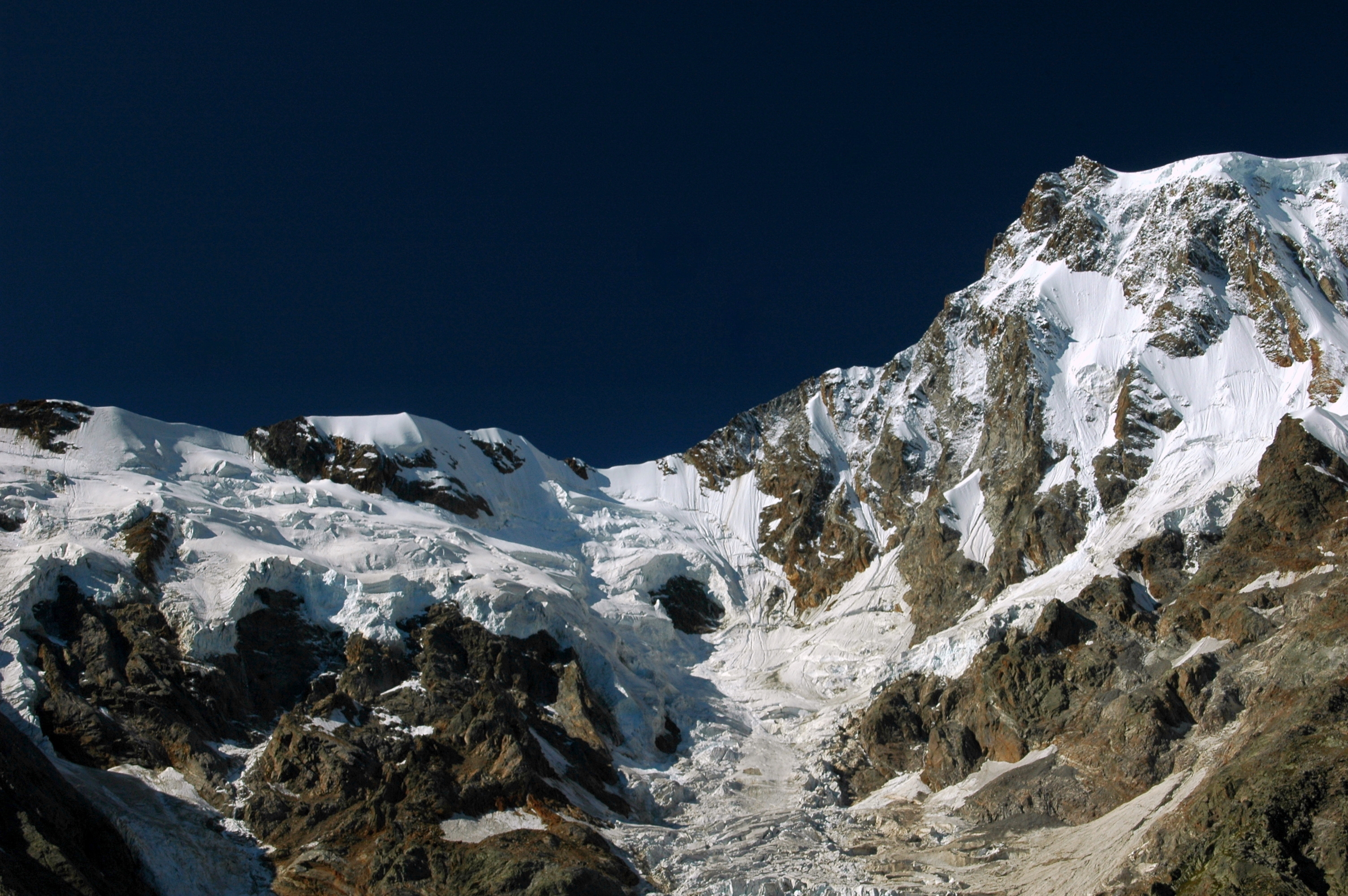 Monte Rosa, Italy